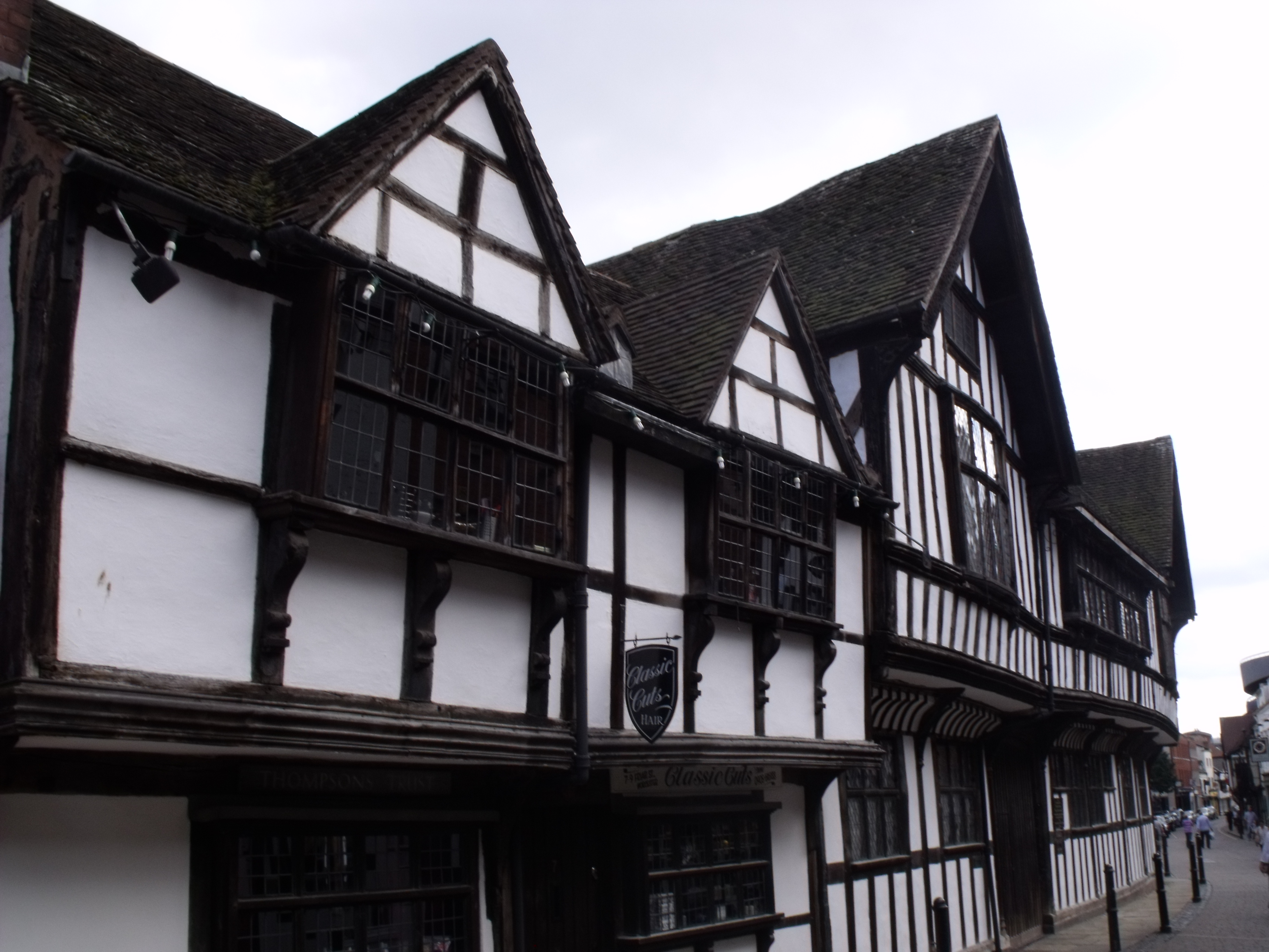 Part of Greyfriars, Friar Street, Worcester, Worcestershire